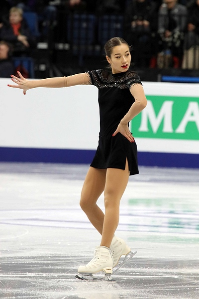 Yasmine Kimiko Yamada at the 2019 European Championships - SP